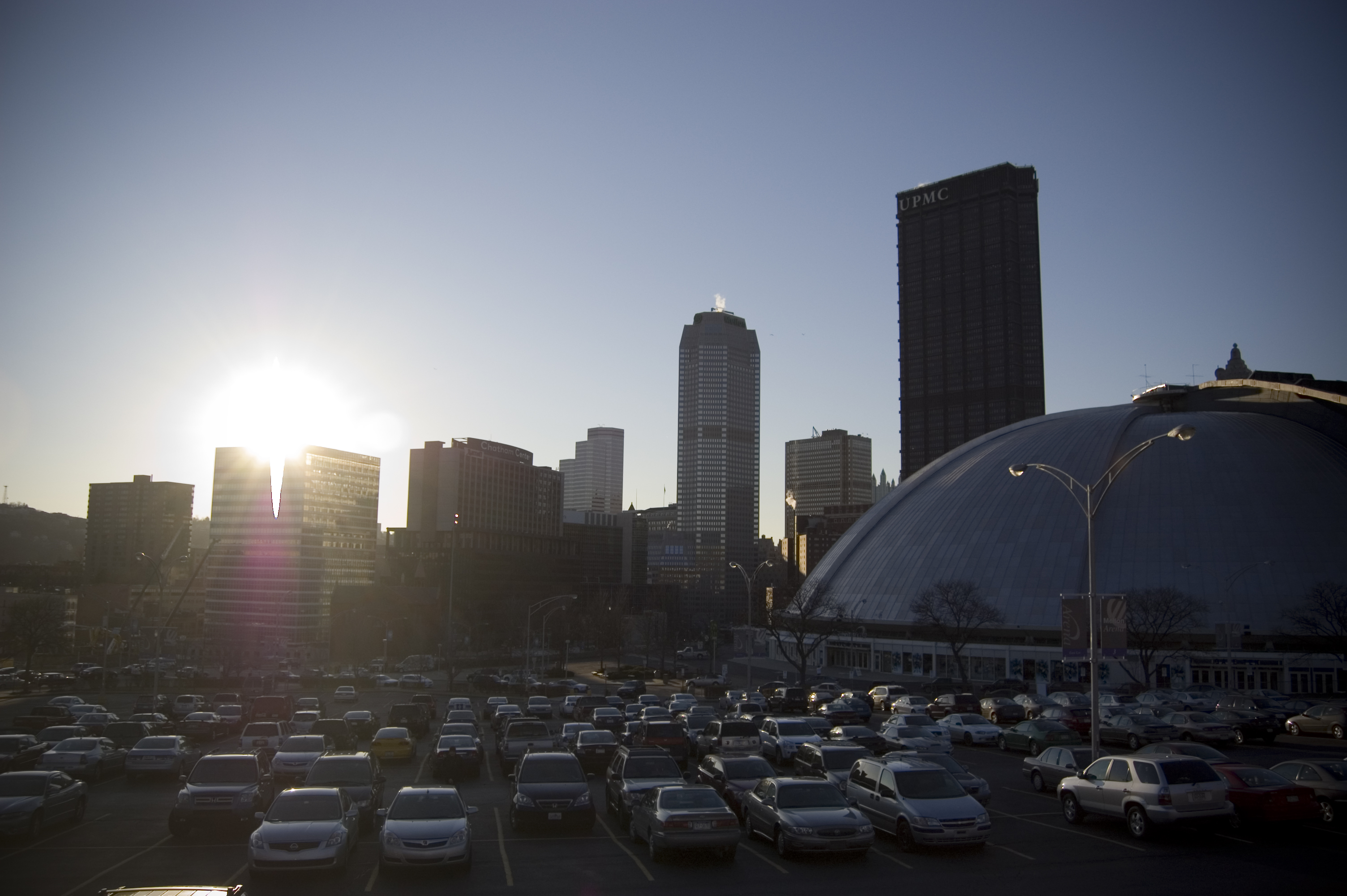 Mellon Arena home of the Pittsburgh Penguins, in Pittsburgh, Pennsylvania